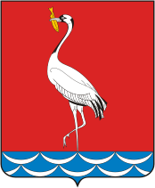 Zhuravskoe (Krasnodar krai), coat of arms